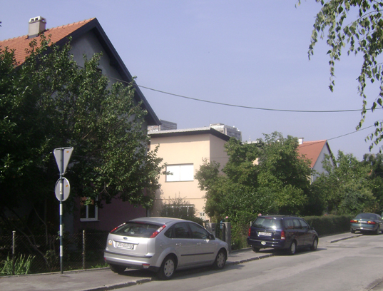 Cvjetno naselje districts in zagreb.